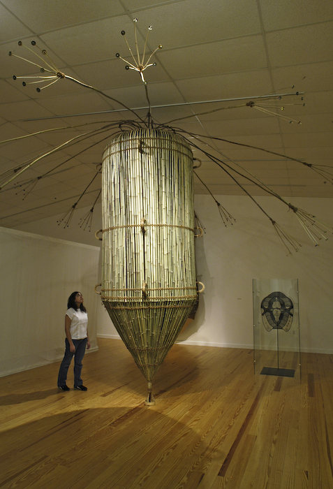 permission granted by artist